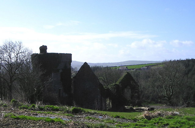 Bronwydd Mansion Never rebuilt after a disastrous fire many years ago.